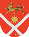 Beslan coat